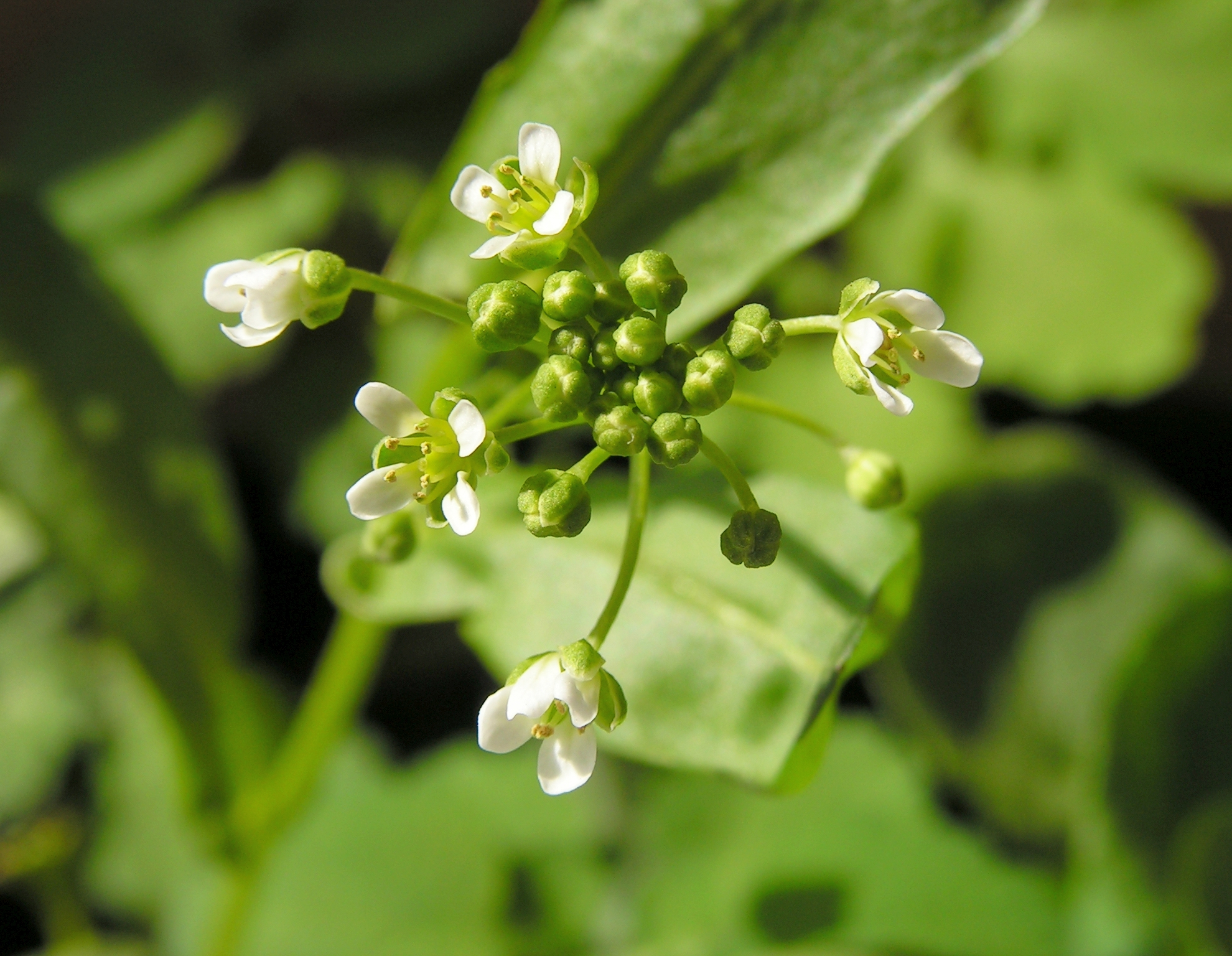 Inflorescence of Thlaspi arvense. Size of opened flowers is appr. 5 mm. Moscow region, Russia.